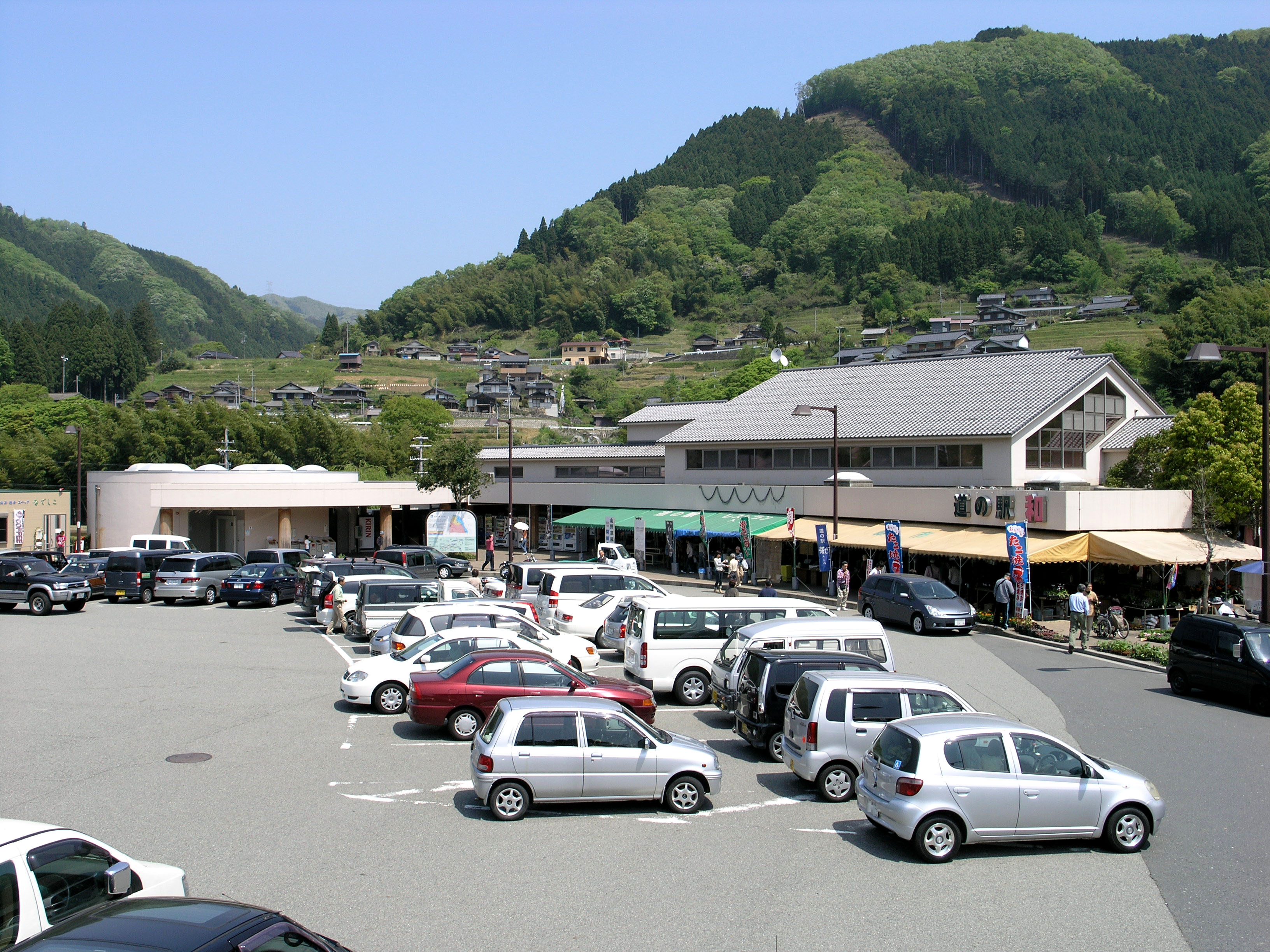 Nagomi_a_Roadside_Station in Kyoto, Japan